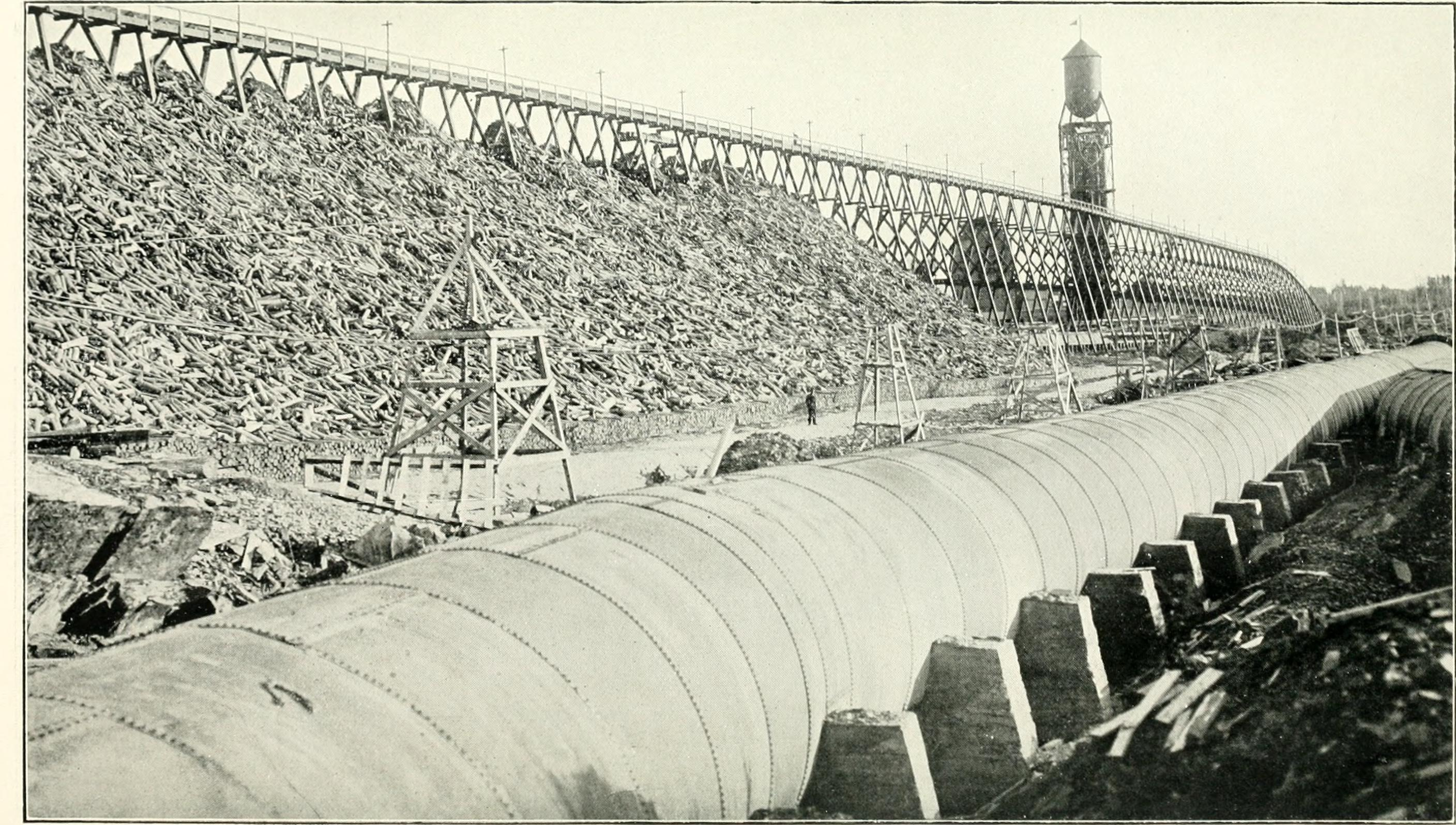 Penstock and log carriers, Grand Falls, ca 1911 Title: Newfoundland in 1911, being the coronation year of King George V. and the opening of the second decade of the twentieth century Year: 1911 (1910s) Authors: McGrath, P. T. (Patrick Thomas), b. 1868 Subjects: Newfoundland and Labrador Publisher: London : Whitehead, Morris & Co., Ltd. Text Appearing Before Image: ' Text Appearing After Image: 97 months from July 1st to December 31st, 1910, were as follows :— 11,120 tons of paper valued at $498,20814,453 „ „ pulp „ „ 144,463 $642,671 It would therefore appear that during the calendaryear, 1910, the export of pulp and paper amounted to-$1,063,990. This would not however, represent a-normal output, because the mills at the start were notoperated to full capacity, and the output the presentyear should be much larger. Moreover, this year theAlbert Reed Company, at Bishop Ealls, will also beswelling the total volume and value of this export bythe results of its operations also. 98 Chapter XIII. MINERAL RESOURCES. The Mining Industry—Copper Zone andOutput—Great Variety of Mineral Products Obtained. NEWFOUNDLANDS mineral wealth is varied andextensive; and deposits of copper and iron are now-being worked largely and profitably. One copper depositat Tilt Cove, in Notre Dame Bay, yields its owners divi-dends of 20 per cent, annually, and from hematite irondeposits at Be